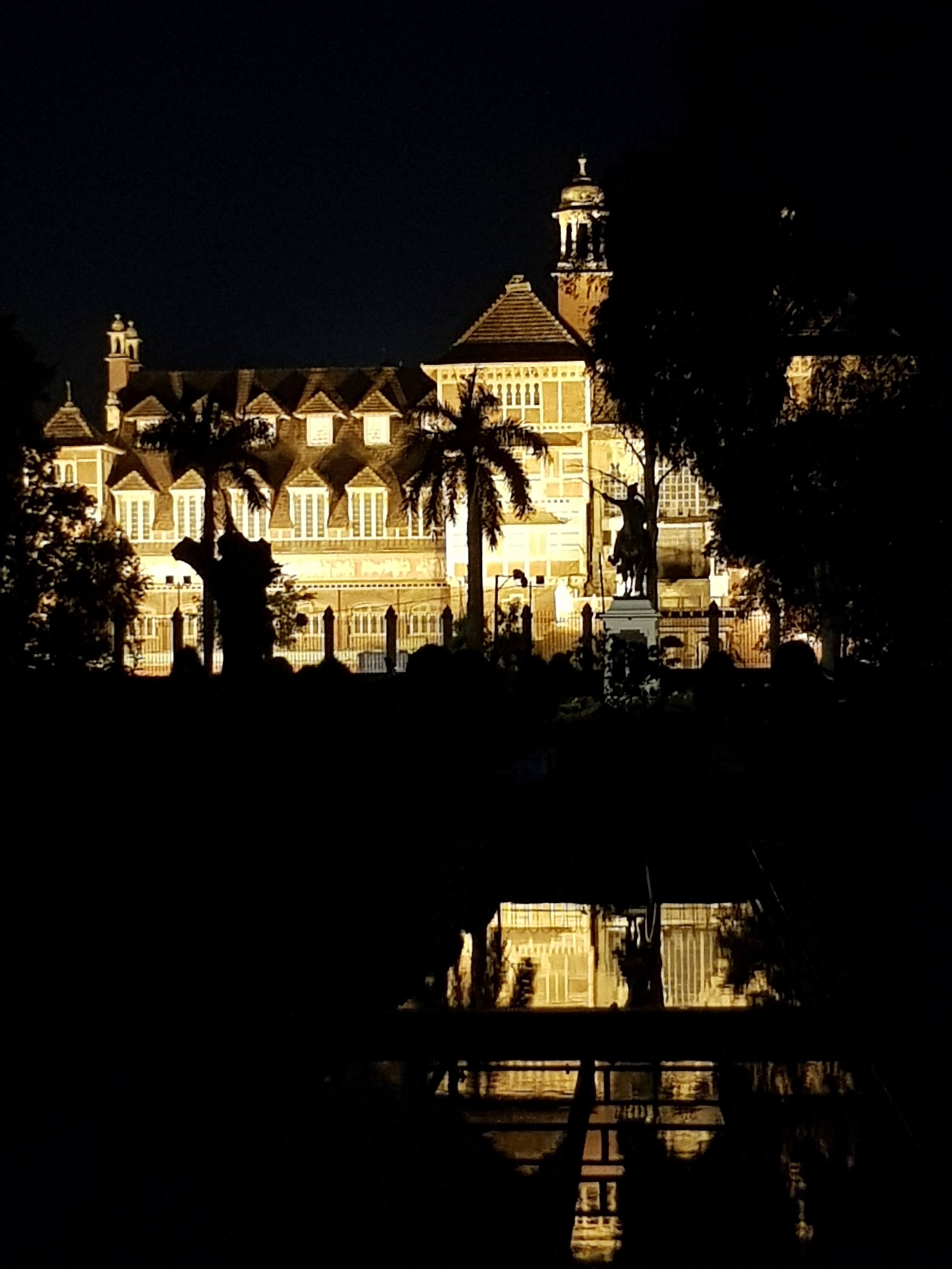 Sayaji Garden, Baroda museum and picture gallery at night